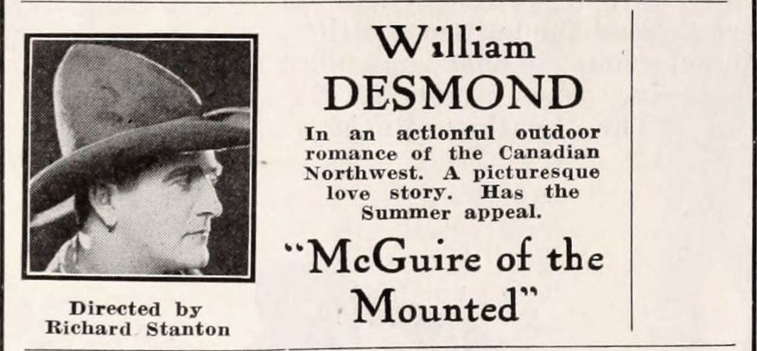 Advertisement for the American drama film McGuire of the Mounted (1923) with William Desmond, on page 32 of the August 4, 1923 Universal Weekly.